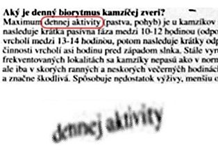 reCAPTCHA example: a scanned text with two words marked. First word is recognized by the OCR program as "dennej" whereas the second word is not recognized. Human (esp. from Slovakia, because the words are Slovak) can recognize the second word as "aktivity". A proper CAPTCHA puzzle is shown below.